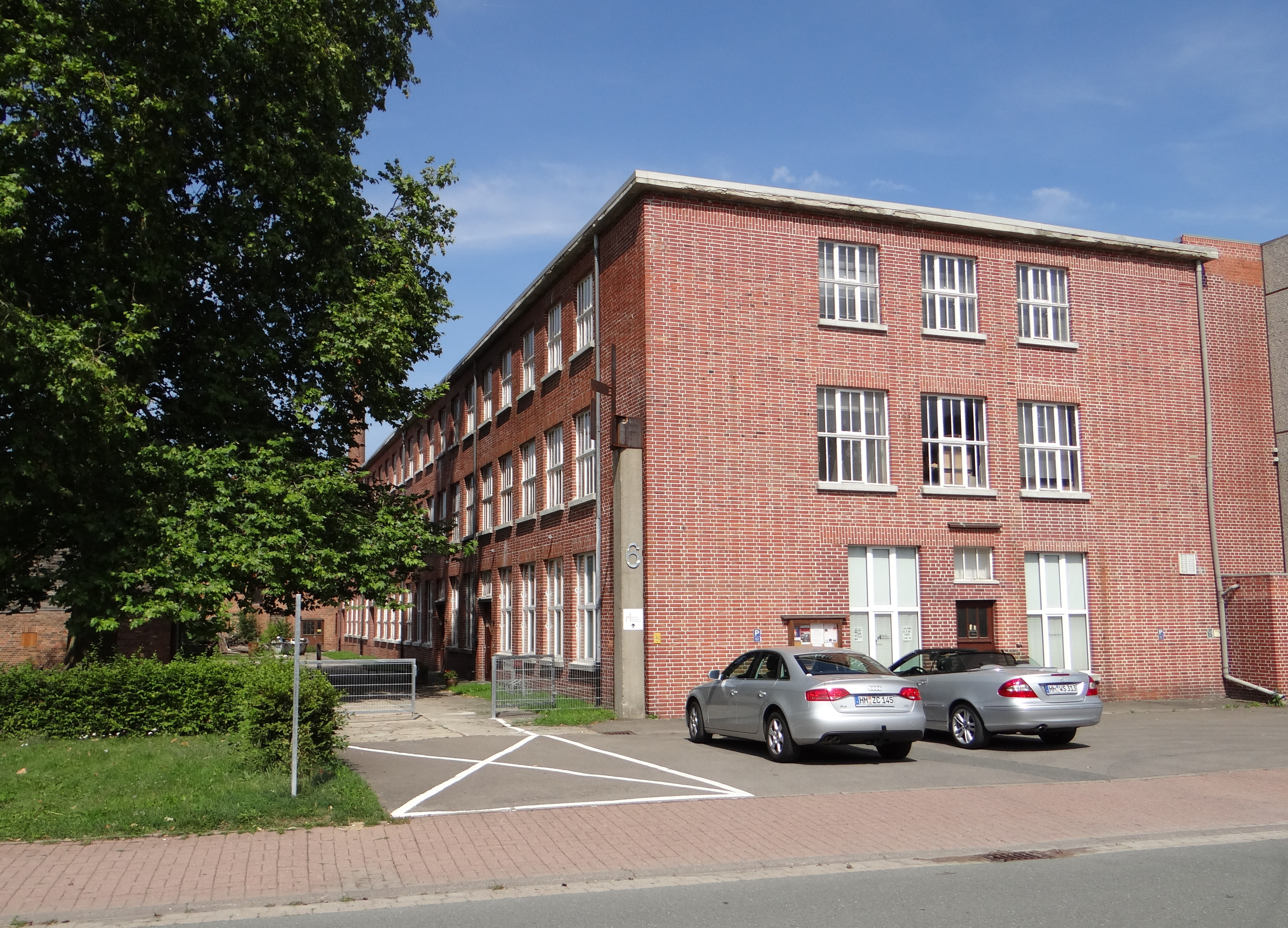 Chair Museum in Eimbeckhausen, Germany.